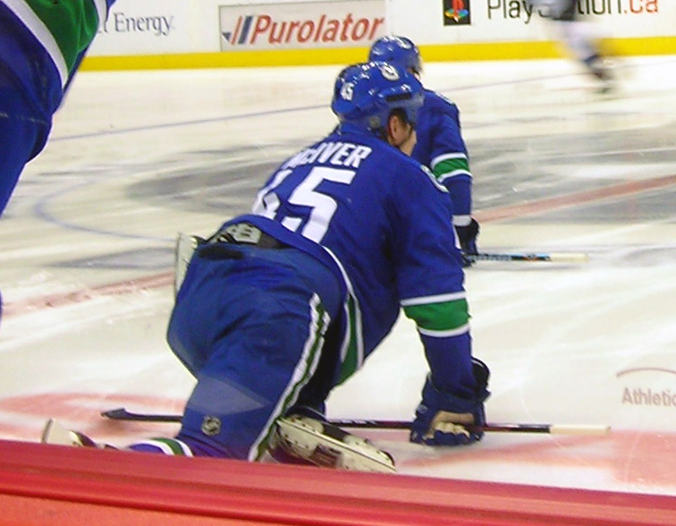 Nathan McIver on February 9, 2008, during a pre-game warm-up versus the Avalanche.